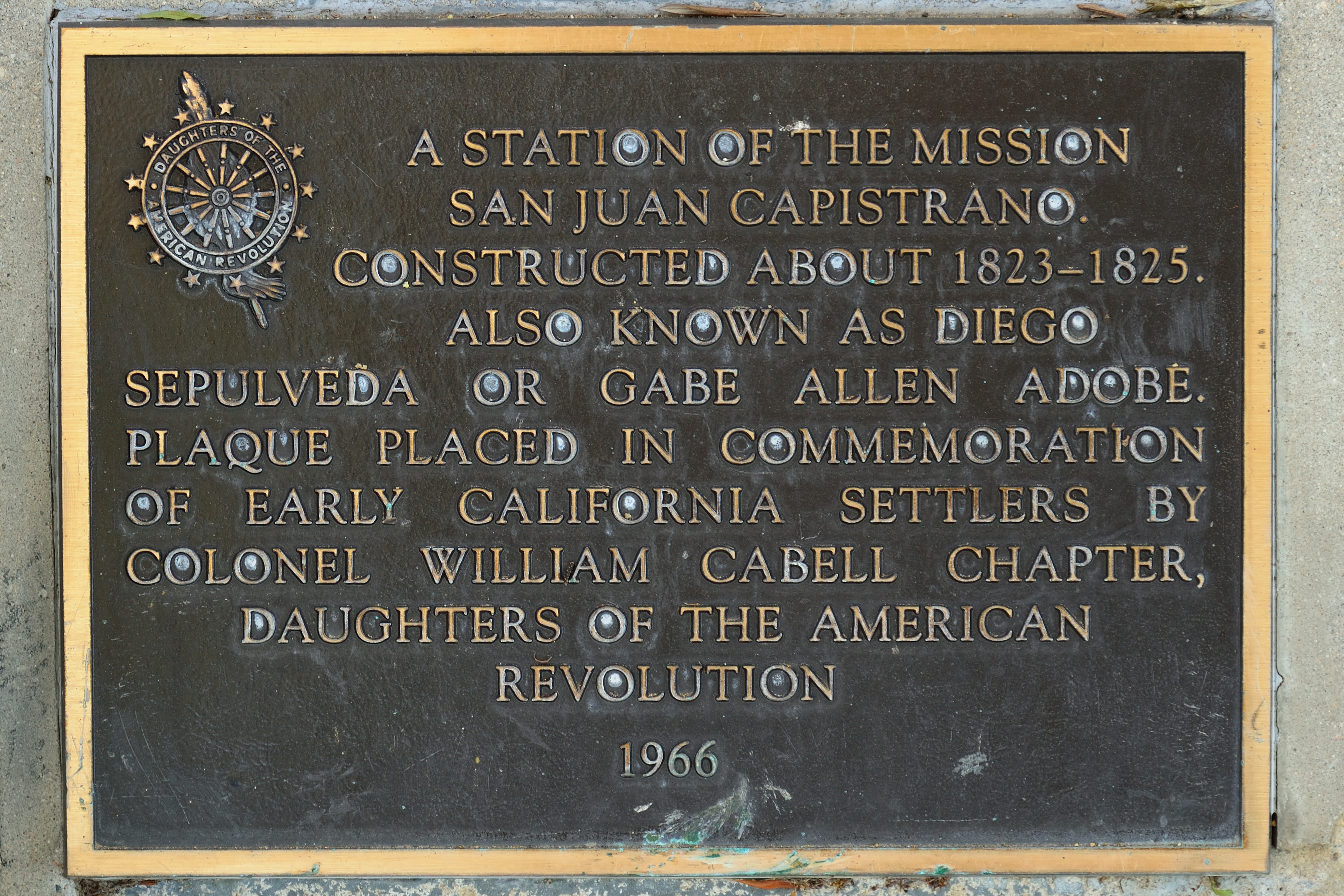 Diego Sepúlveda Adobe